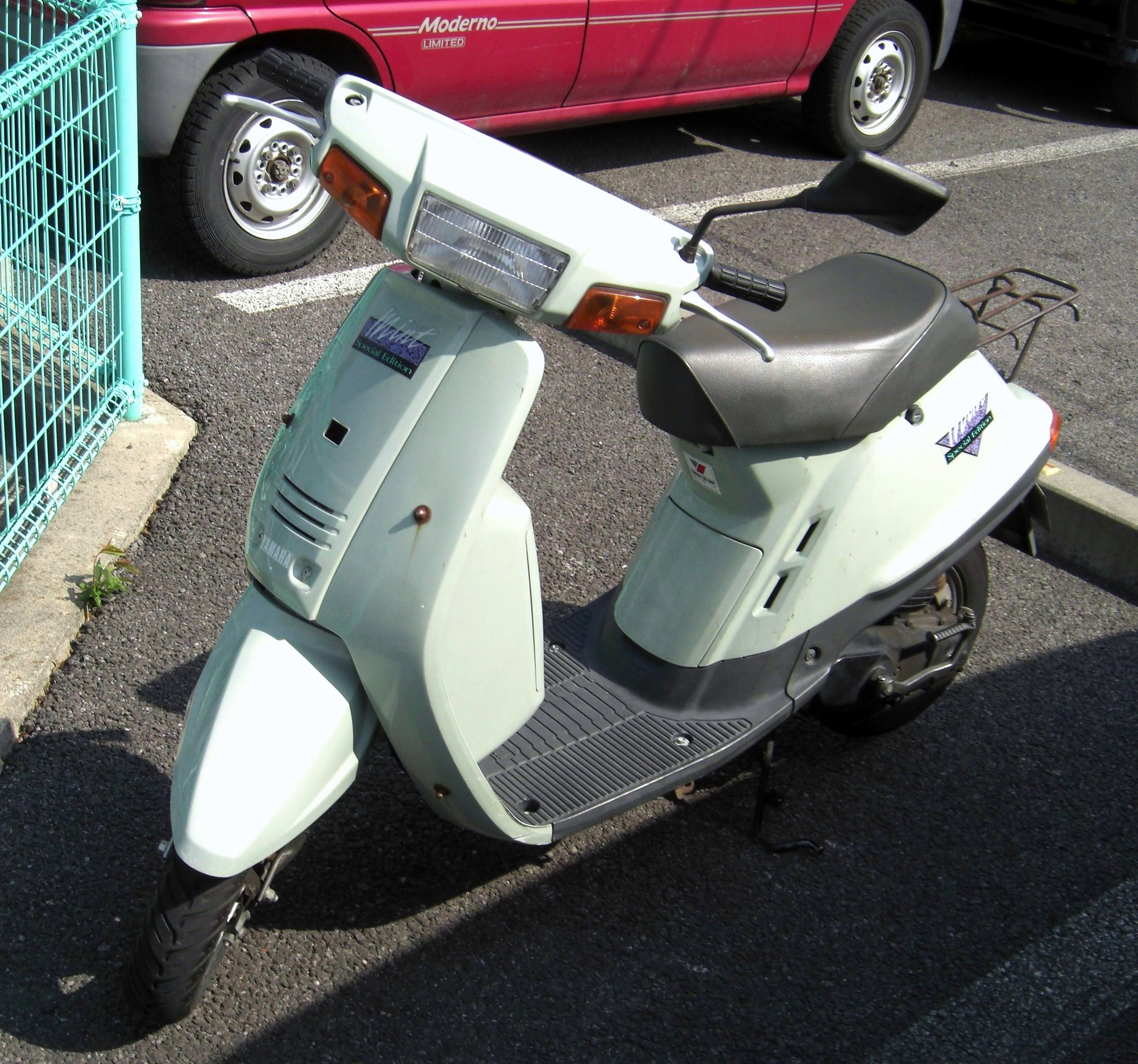 Yamaha Mint